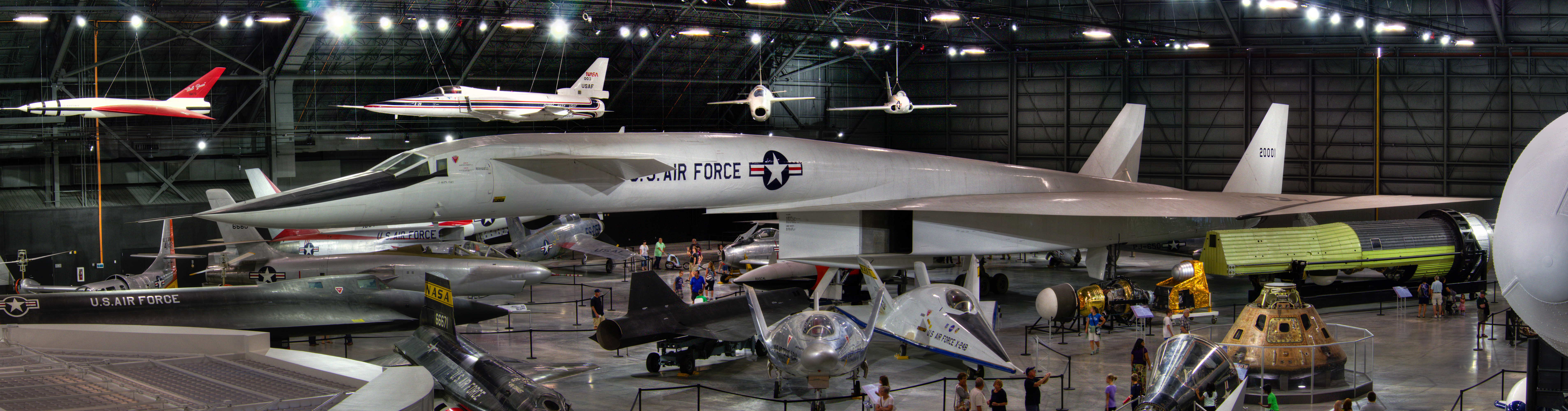 North American XB-70 Valkyrie at Wright-Patterson USAF Museum - June 2016. The XB-70 now sits in the fourth hanger of the main museum.